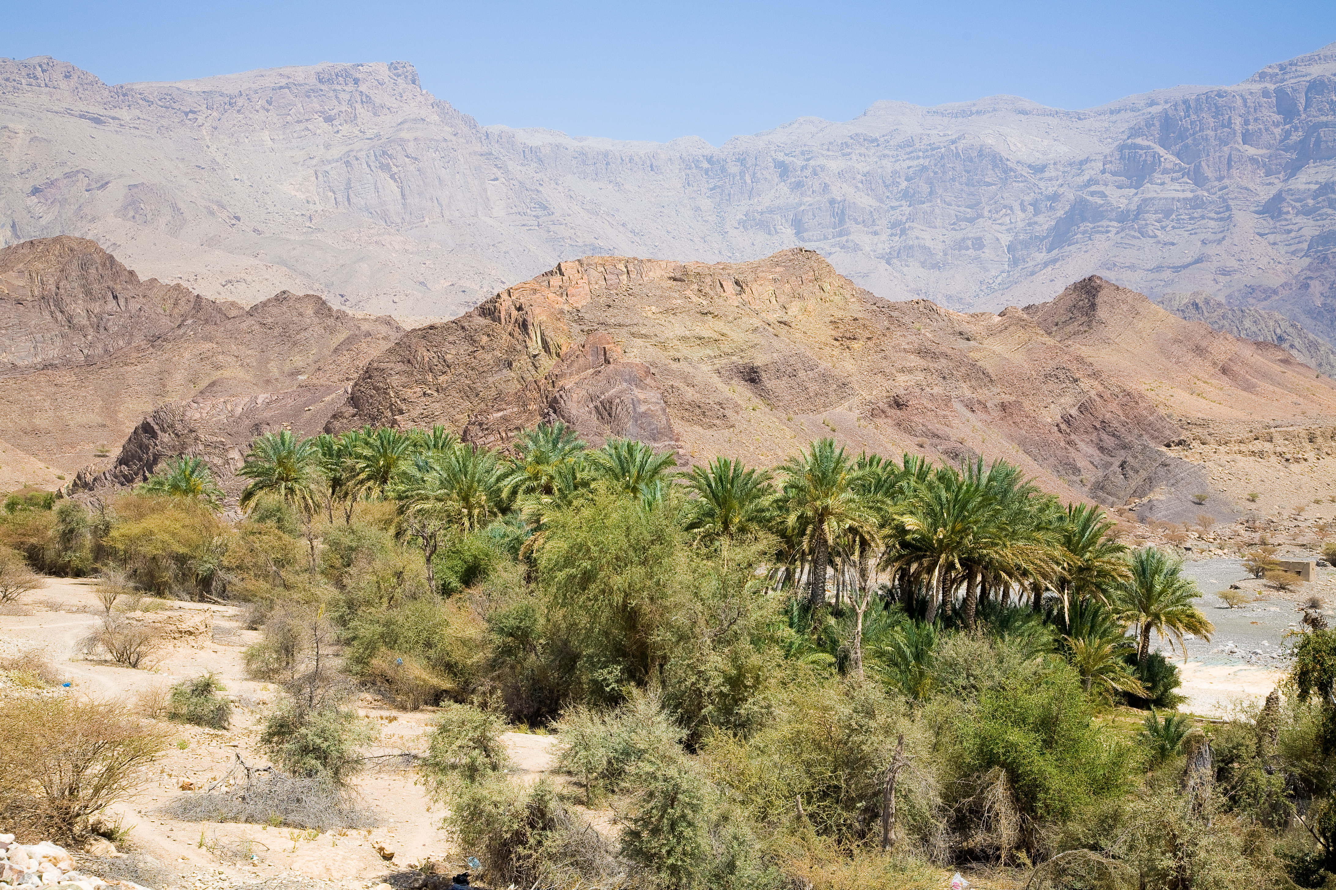 Landscape on the east coast of Oman